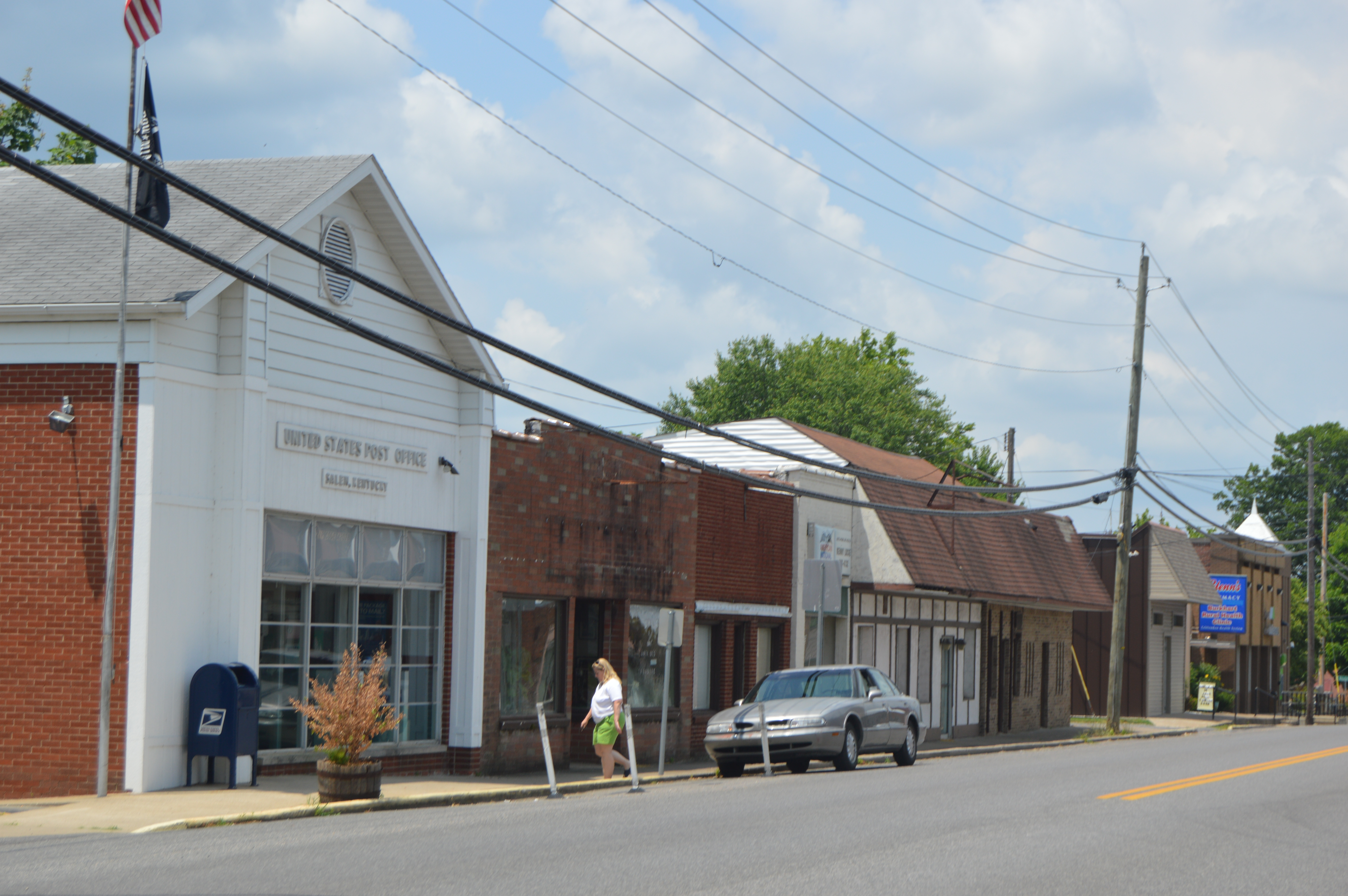 Buildings on the southern side of Main Street (U.S. Route 60) in Salem, Kentucky, United States.